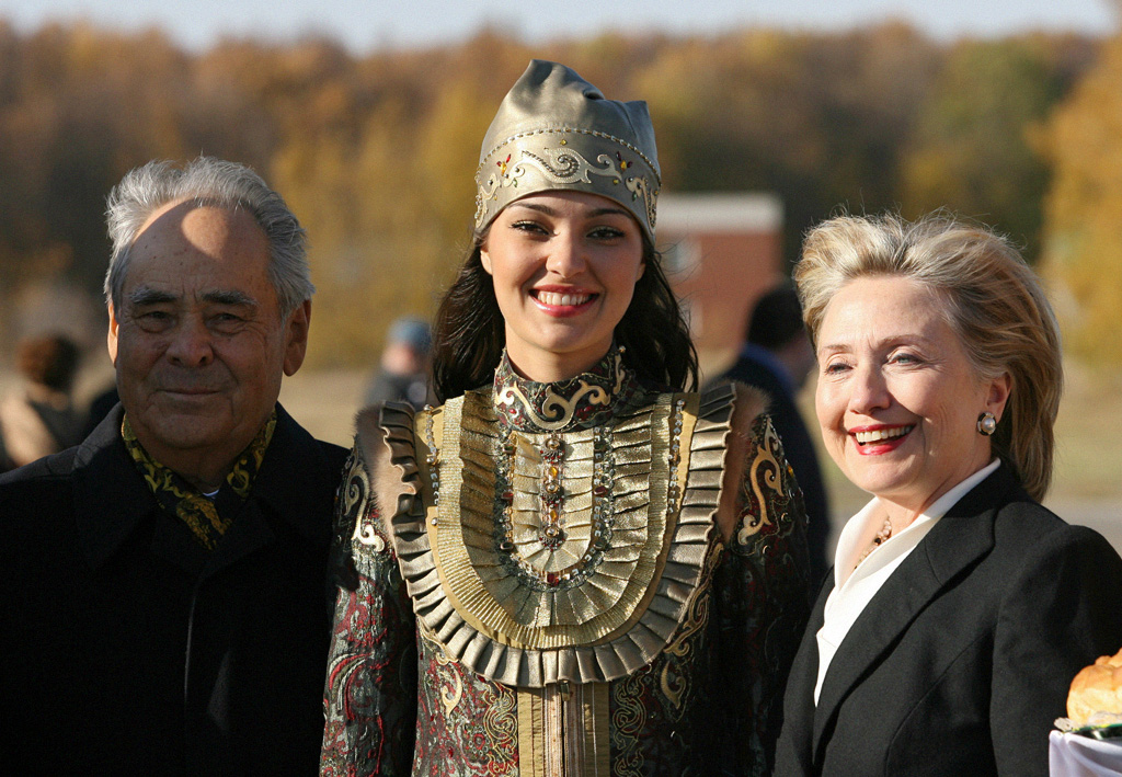 “U.S. Secretary of State Hillary Clinton visits Tatarstan”. U.S. Secretary of State Hillary Clinton, right, and Tatar President Mintimer Shaimiyev meeting in Kazan.